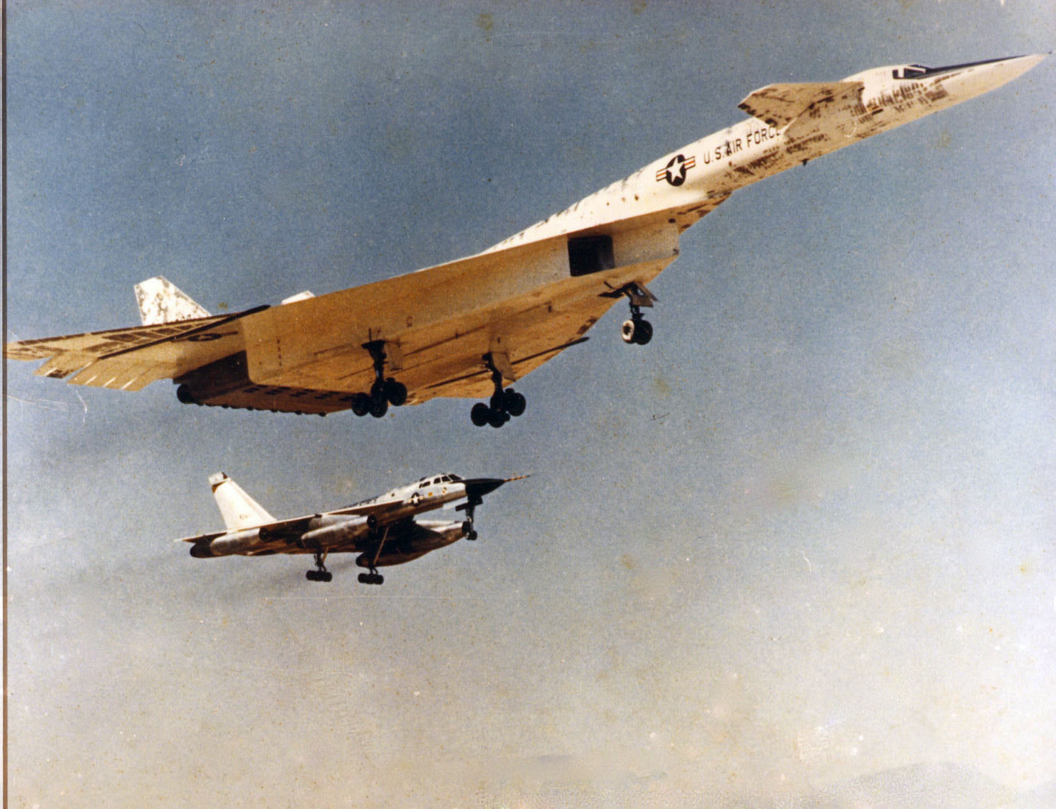 North American XB-70A with Convair B-58A chase aircraft before landing. The white colour is partly burned down through the high temperatures during a high-speed test. Changes in paint application were made as a result of this experience.